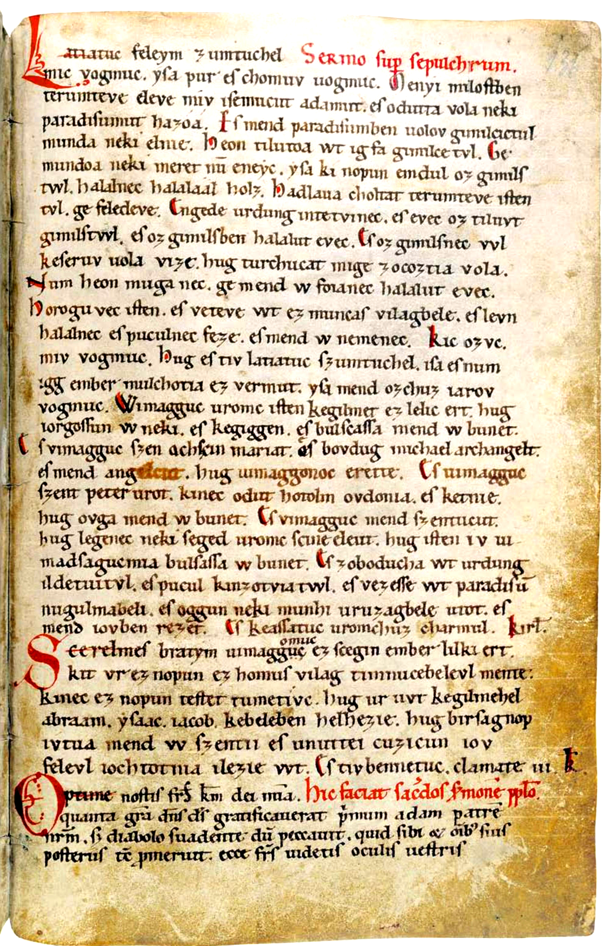 Text of the Funeral Sermon and Prayer in the Pray-Codex